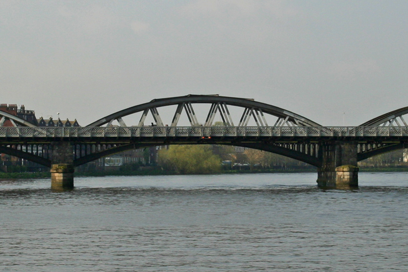 When racing, crews must pass through the centre arch of the Barnes Railway Bridge. Category:Images of the Boat Race